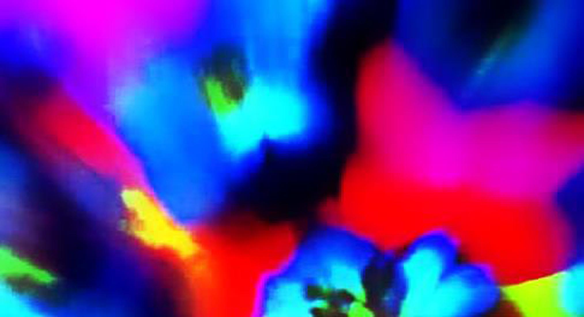 Flowers